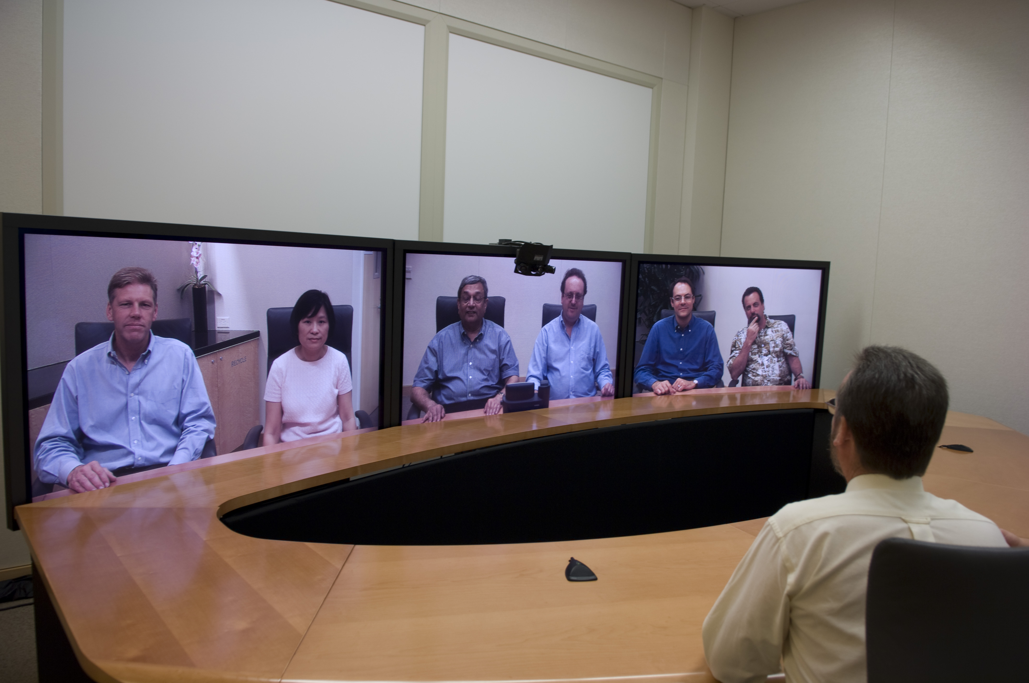 Early CTS-3000 Prototype without lighting.